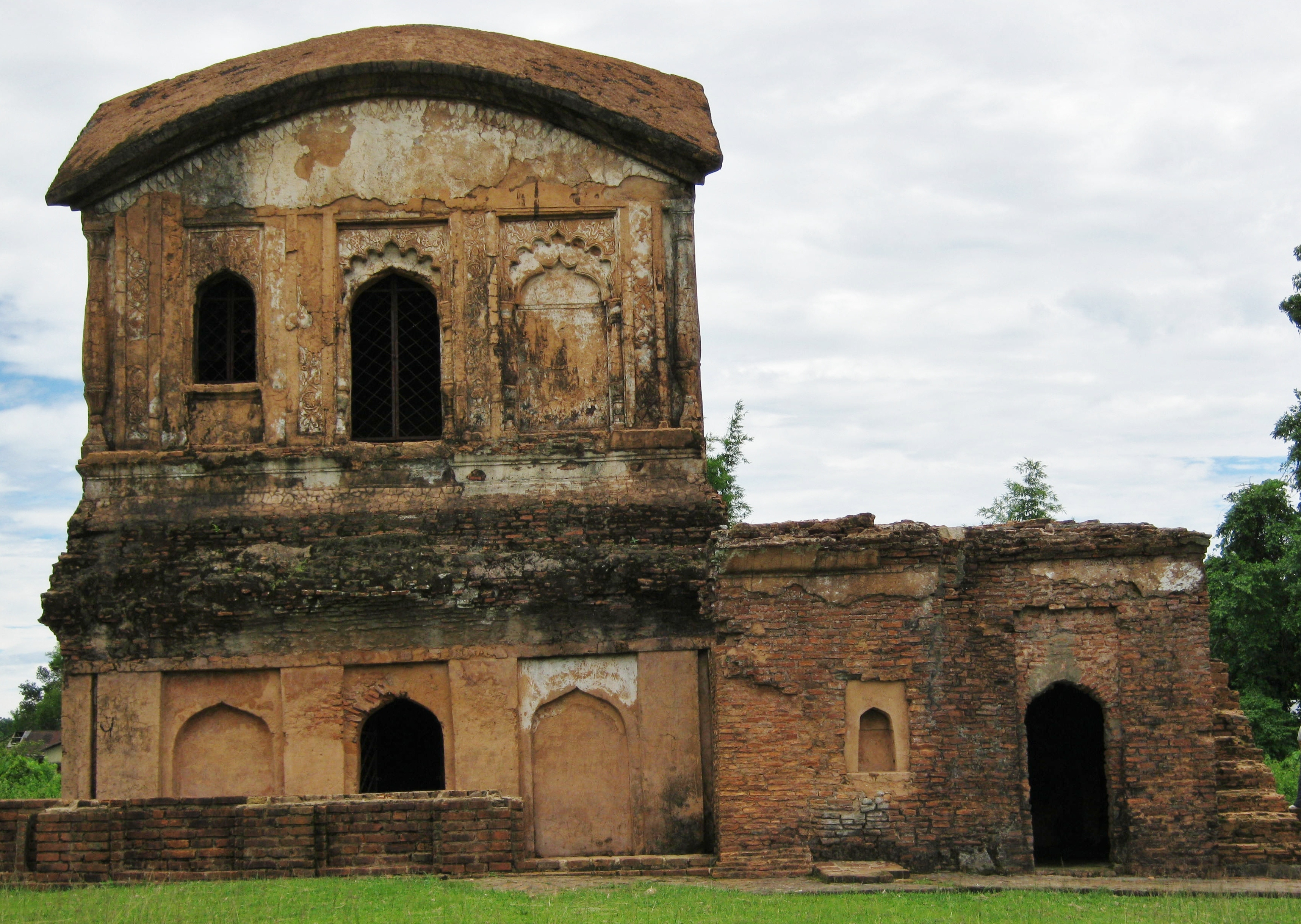 Front view of the Baroduwar Palace of Hirimba Kingdom at Khaspur in Cachar, Assam